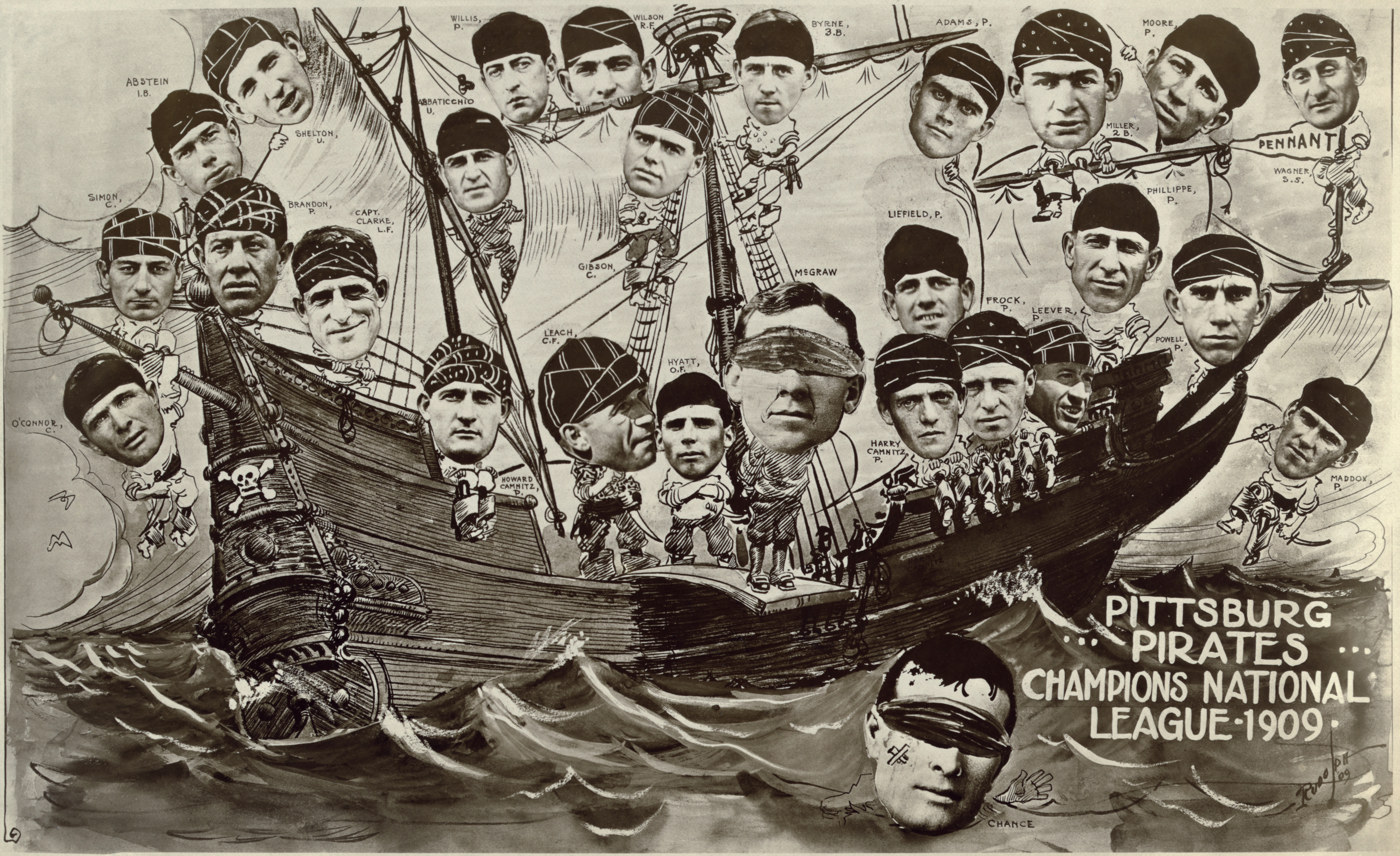 Original title: "Pittsburg Pirates, champions National League, 1909 / Rudolph '09." Original description: "Composite photo and drawing with heads of Pittsburg Pirate baseball team members as pirates arranged on a pirate ship; each player/pirate is identified by last name and position played." Pirates Pictured: (left to right, top to bottom) "Shelton", Vic Willis, Chief Wilson, Bobby Byrne, Babe Adams, Gene Moore, Honus Wagner, Bill Abstein, Ed Abbaticchio, George Gibson, Mike Simon, Chick Brandon, Fred Clarke, Lefty Leifield, Deacon Phillippe, Bill Powell, Paddy O'Connor, Howard Camnitz, Tommy Leach, Ham Hyatt, Harry Camnitz, Sam Frock, Sam Leever, and Nick Maddox. Also note John McGraw (manager of the New York Giants in 1909) being made to walk the plank and Frank Chance (of the Chicago Cubs who won the NL pennant in 1906, 1907, 1908, and 1910) floundering in the water already. The Pirates won the NL pennant over the Cubs (who finished 2nd in 1909) by 6.5 games and over the Giants (who finished 3rd) by 18.5 games.